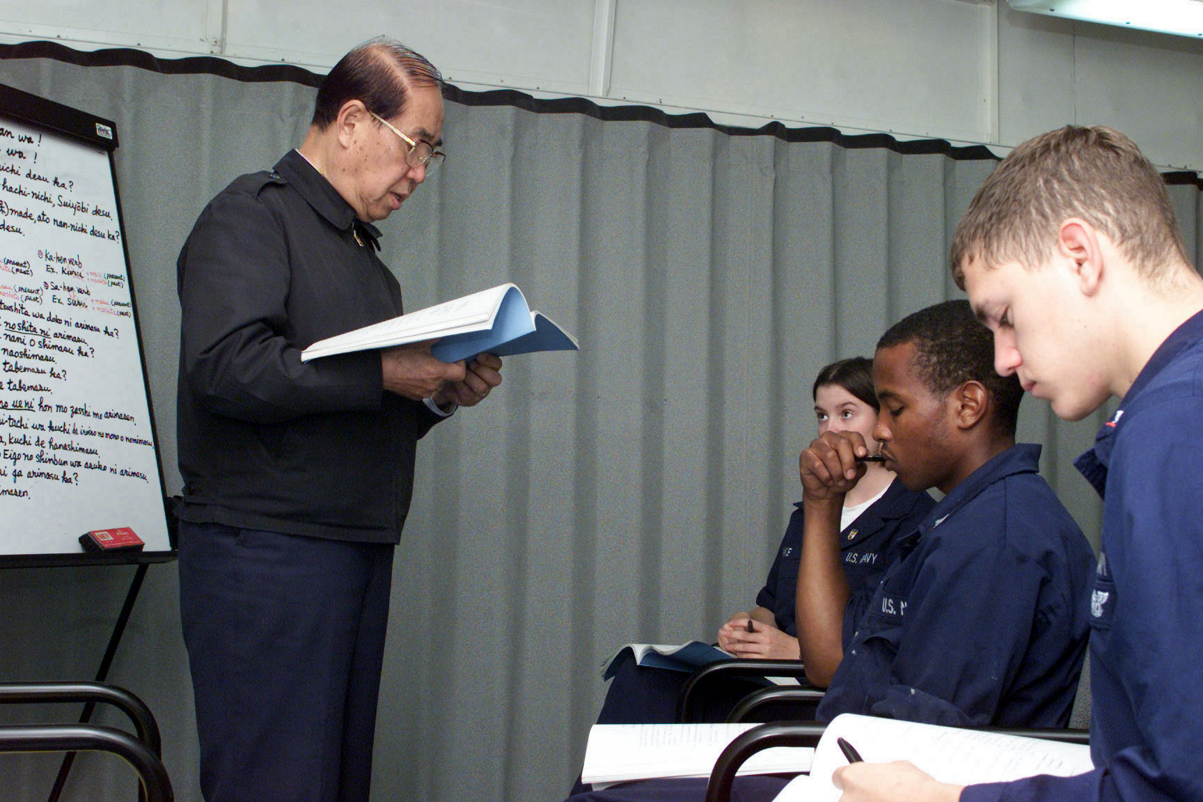 At sea aboard the amphibious assault ship USS Essex (LHD 2) Sep. 18, 2002 -- Dr. Minoru Fukuda instructs sixty two crewmembers aboard USS Essex in elementary Japanese in the ship’s chapel lounge. Dr. Fukuda is a contracted instructor, through Central Texas College (CTC), assigned to provide Program Afloat College Education (PACE) to Sailors assigned to deployed ships. PACE college courses are provided by regionally accredited colleges and universities and give Sailors the opportunity to experience challenging education while on sea duty assignments. Essex is in the vicinity of Okinawa, Japan, conducting Amphibious Readiness Group Exercises with Marines from the 31st Marine Expeditionary Unit. U.S. Navy photo by Photographer's Mate 3rd Class Clover B. Christensen. (RELEASED)